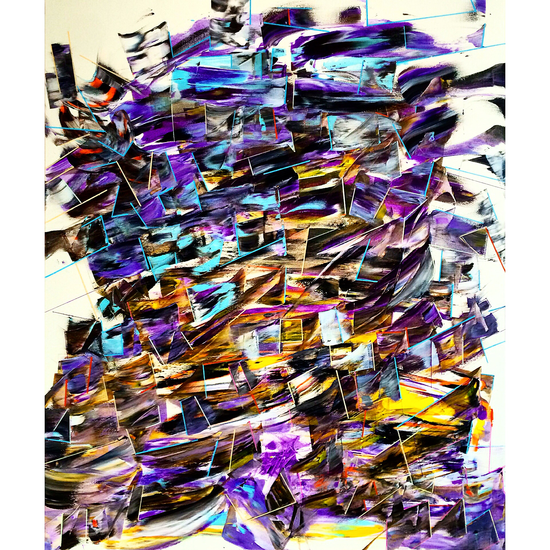 Painting Acrilique on canvas